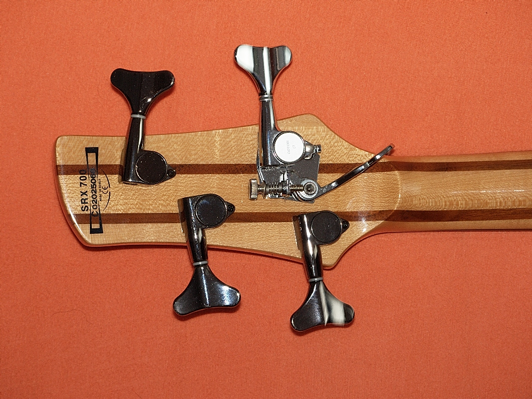 Bass guitar headstock equipped with D-Tuner; at D position